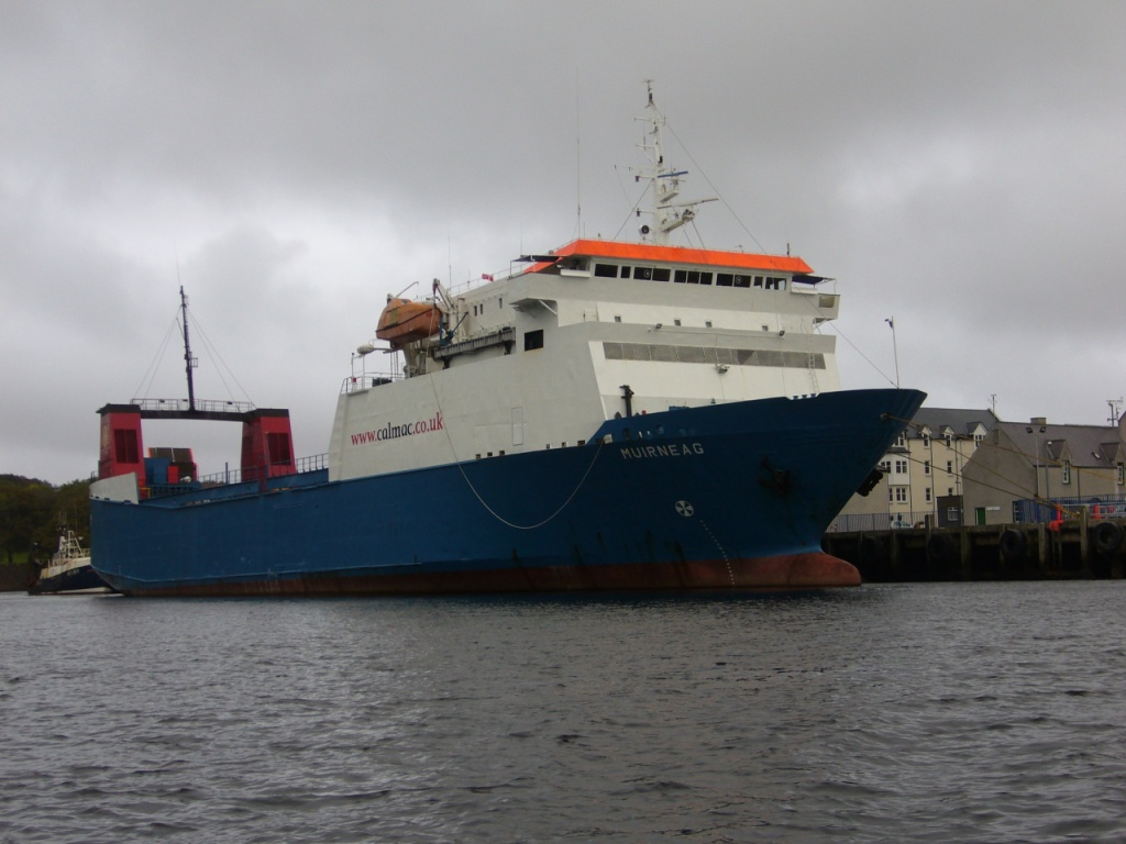 MV Muirneag at Stornoway. IMO Number: 7725362 MMSI Number: 235007463 Callsign: VQBE3 Length: 106m Beam: 19 m